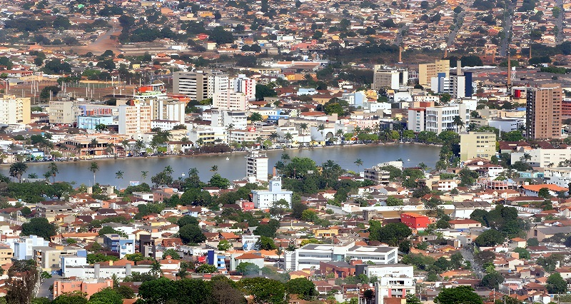 ok